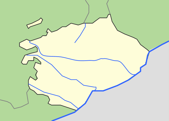 Map of Fizuli Rayon of Azerbaijan